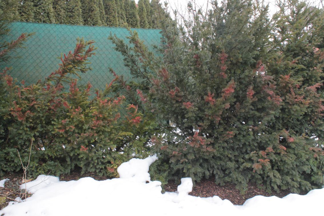 Vandalism